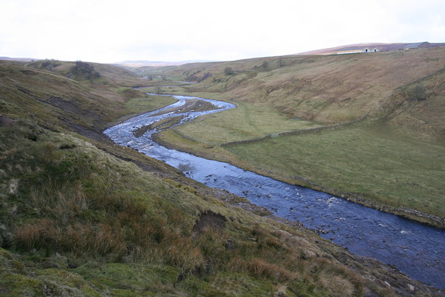 Upper River Lune Looking west up a series of meanders in the River Lune on its short course from it formation (by the confluence of Lune Head Beck and Long Grain) to its absorption in Selset reservoir half a kilometre behind the photographer.